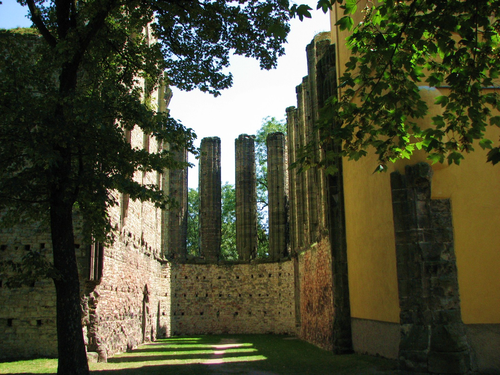 The unfinished church in Panensky Tynec